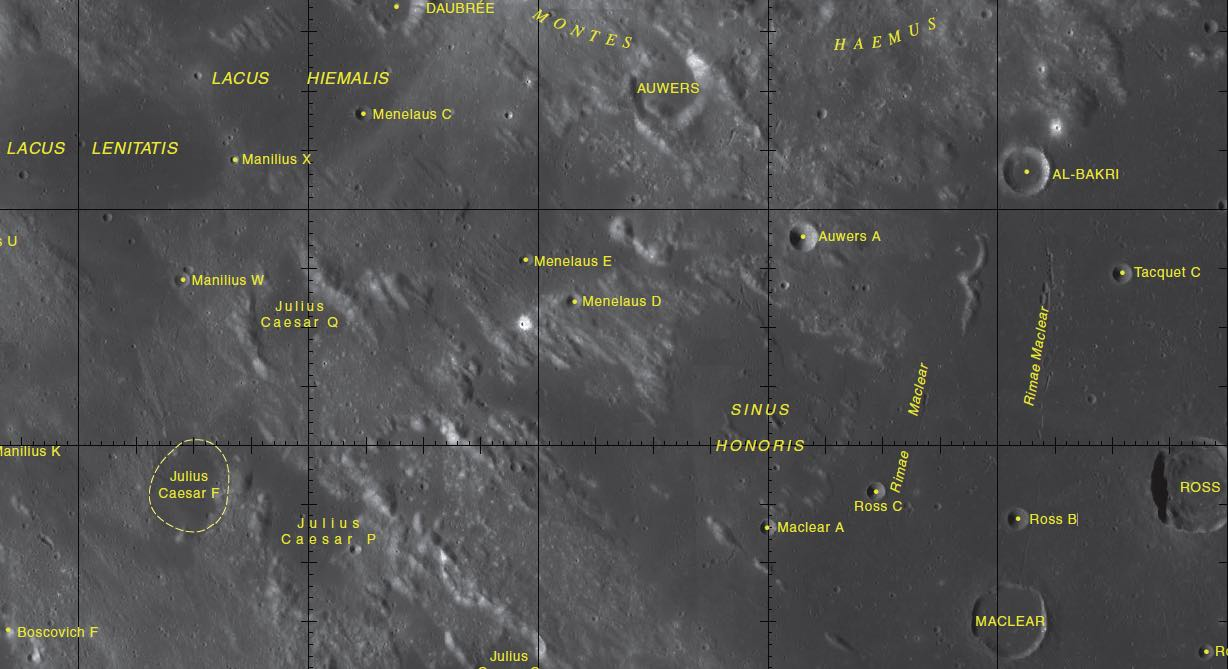 Part of the chart LAC-60.